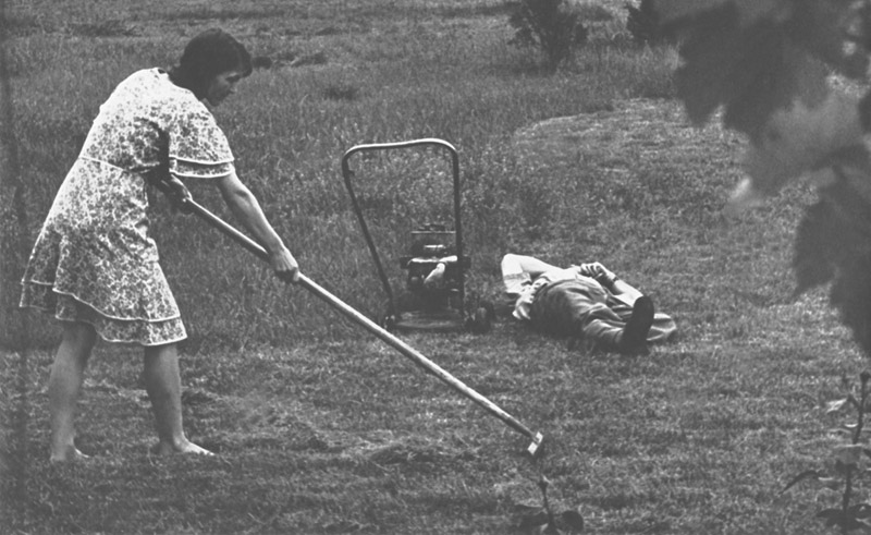 (In Moldova) and such happens (the end of 80th years).